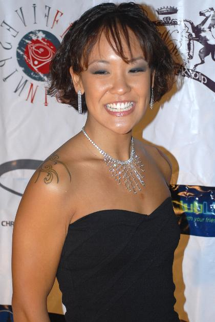 Oct 10 2007: James Bartholet Birthday Party.